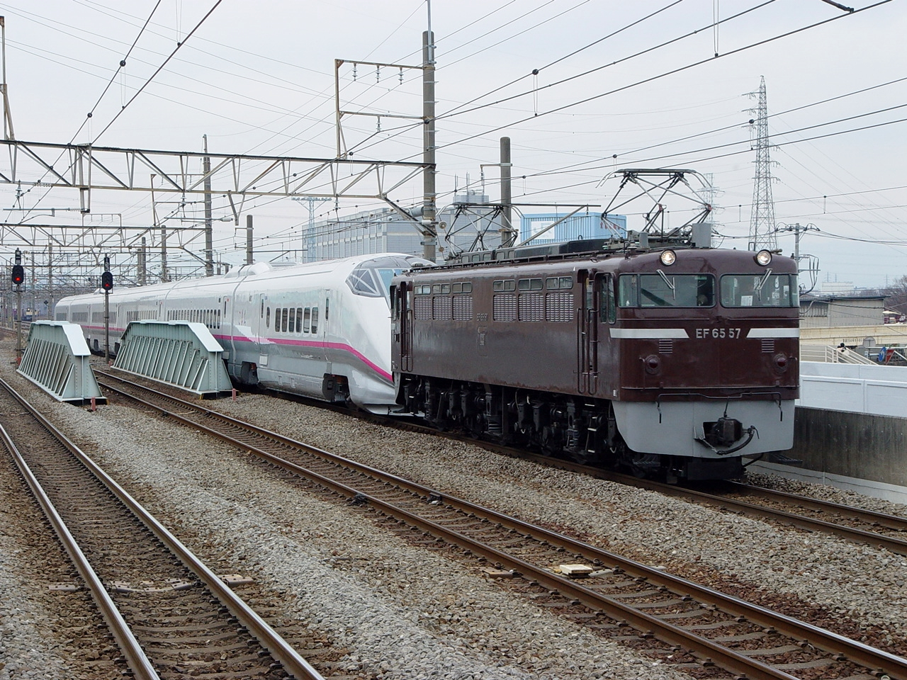 Brown-liveried JR Freight Class EF65 electric locomotive EF65 57 approaching Niiza Station hauling newly-built Akita Shinkansen E3 series shinkansen set R24 on delivery from the Kawasaki Heavy Industries factory in Kobe